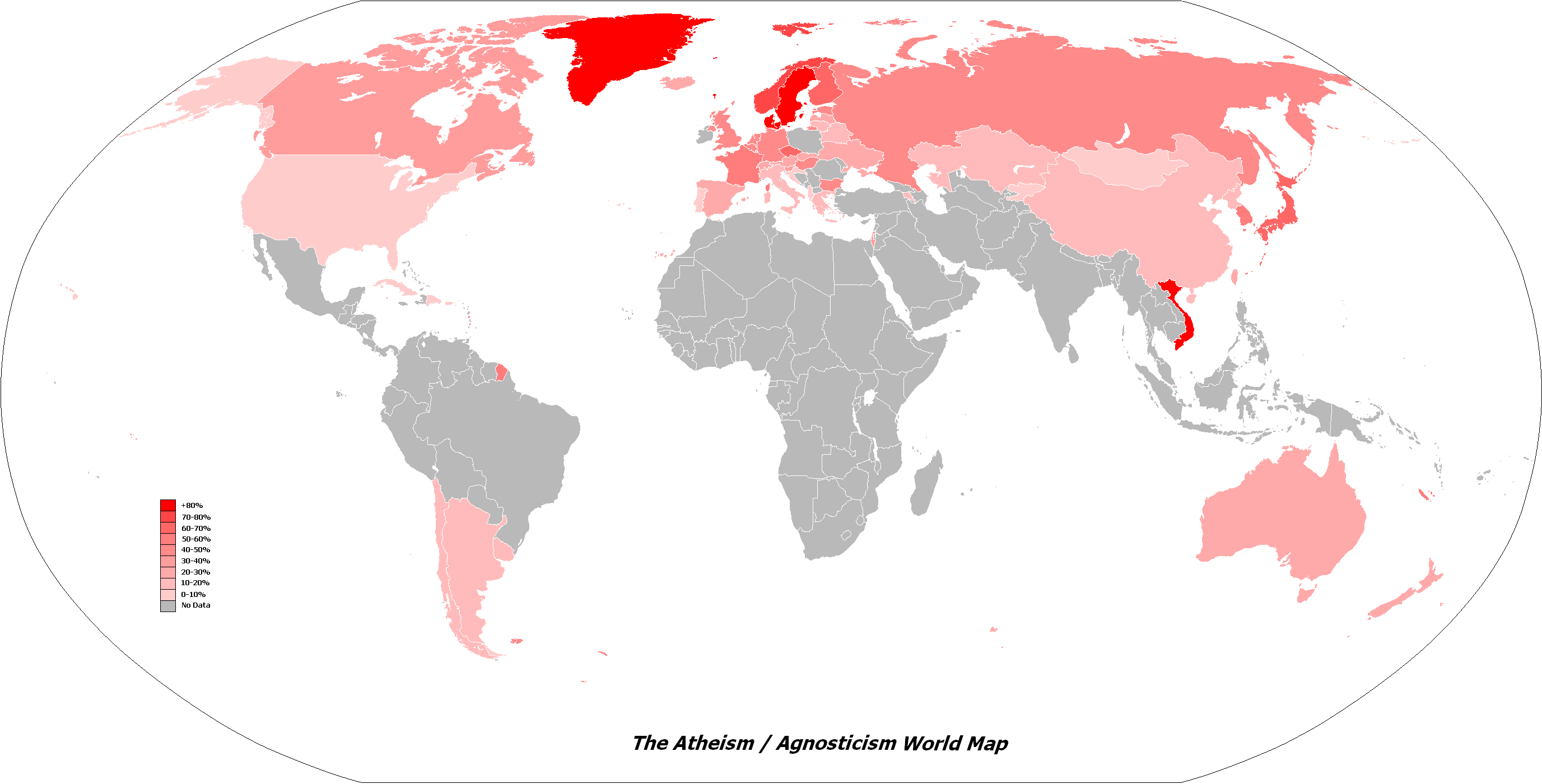 It's a current version of the percentage of atheism and agnosticism in the countries of our planet.